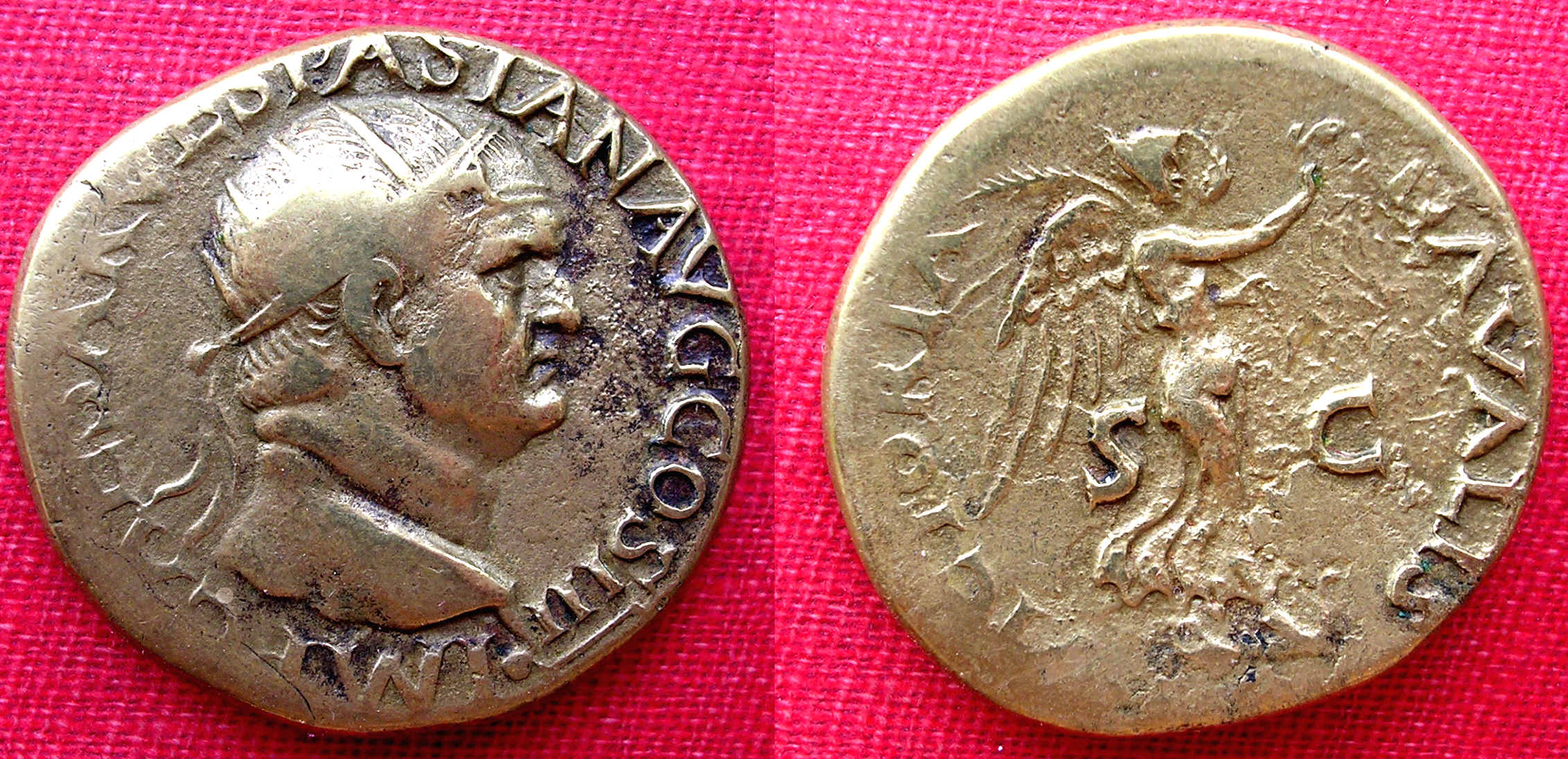 A Dupondius or brass coin of the Roman Emperor Vespasian (AD 69-79), struck at Lyon in about AD 72-73. Author: Guy de la Bedoyere